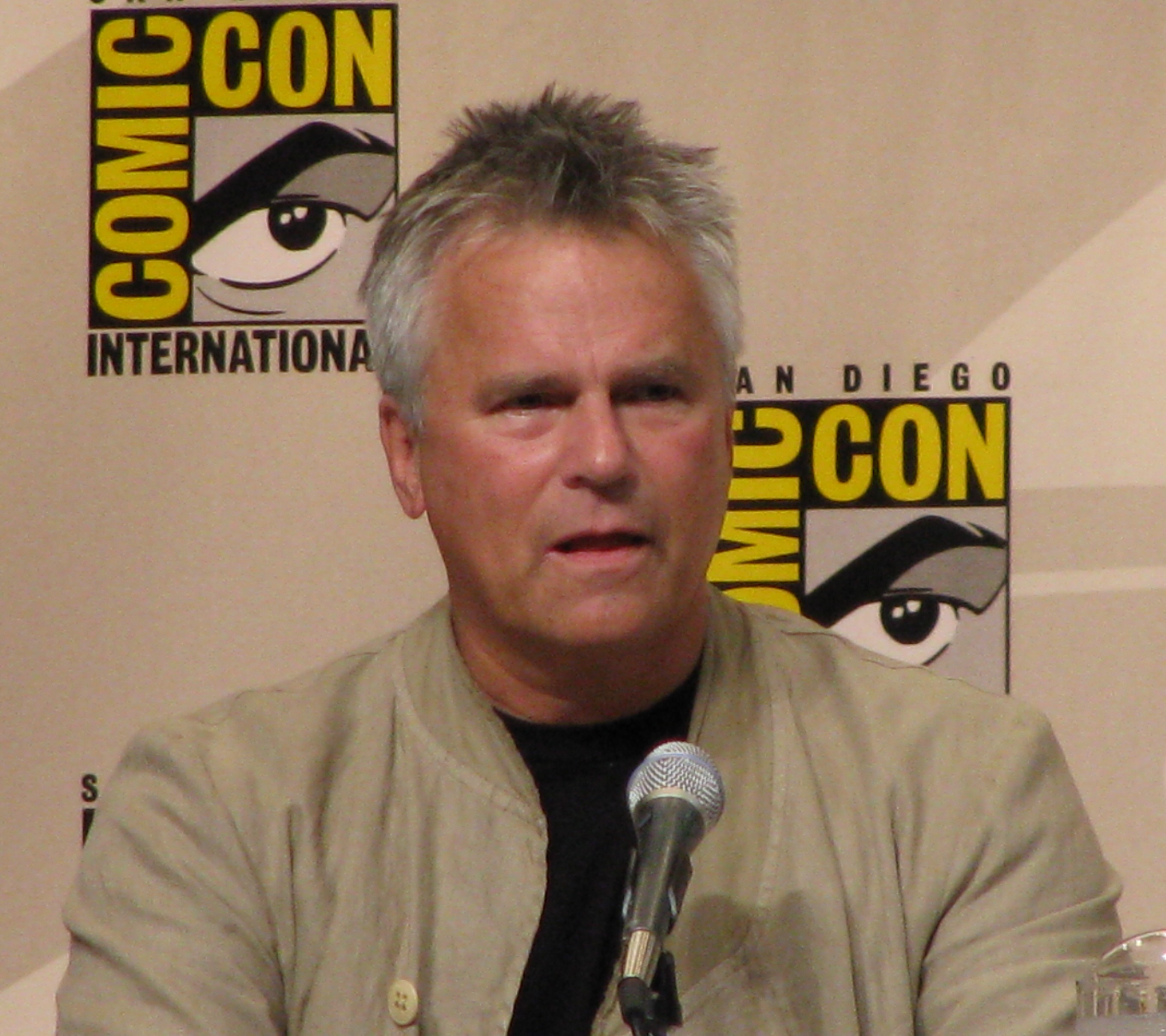 Richard Dean Anderson at Comic Con 2008